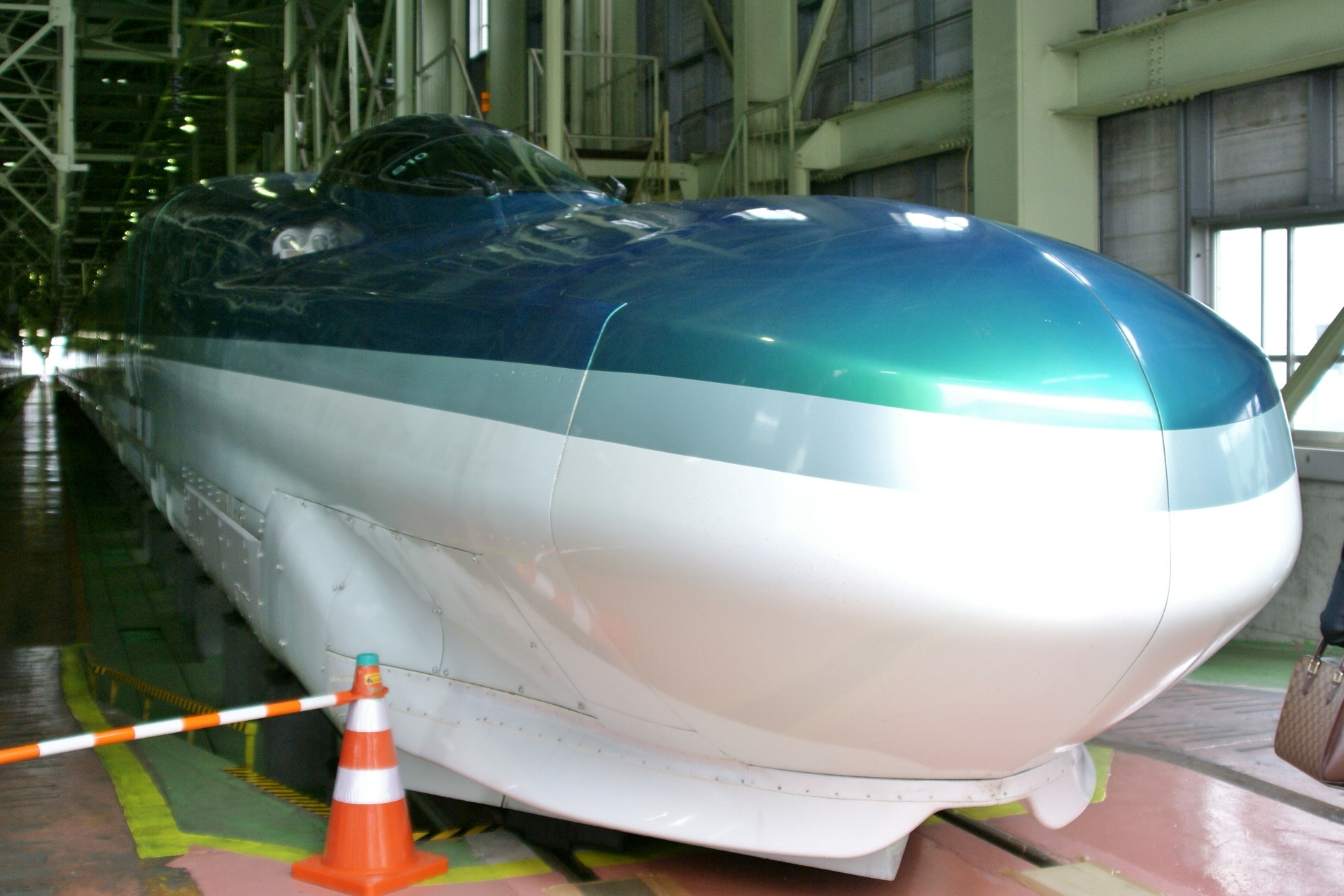 JR East Class E955 "Fastech 360Z" experimental shinkansen set S10 at Sendai General Shinkansen Depot open day